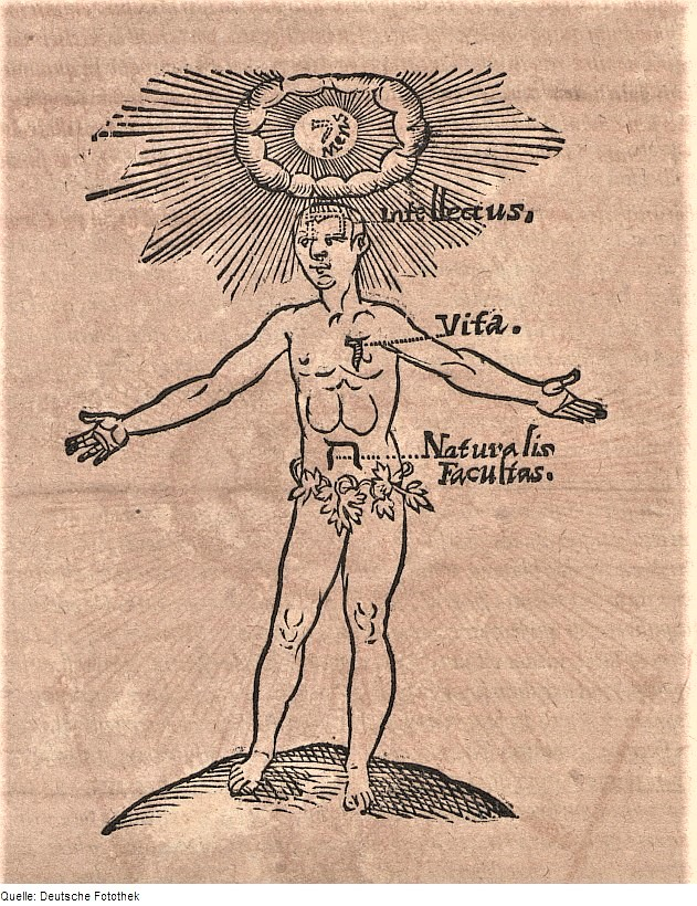 Original image description from the Deutsche Fotothek Theosophie & Philosophie & Judentum & Kabbala